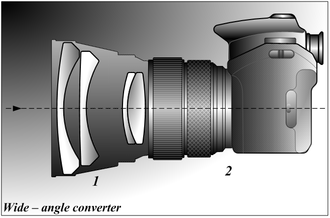 Wide angle converter.